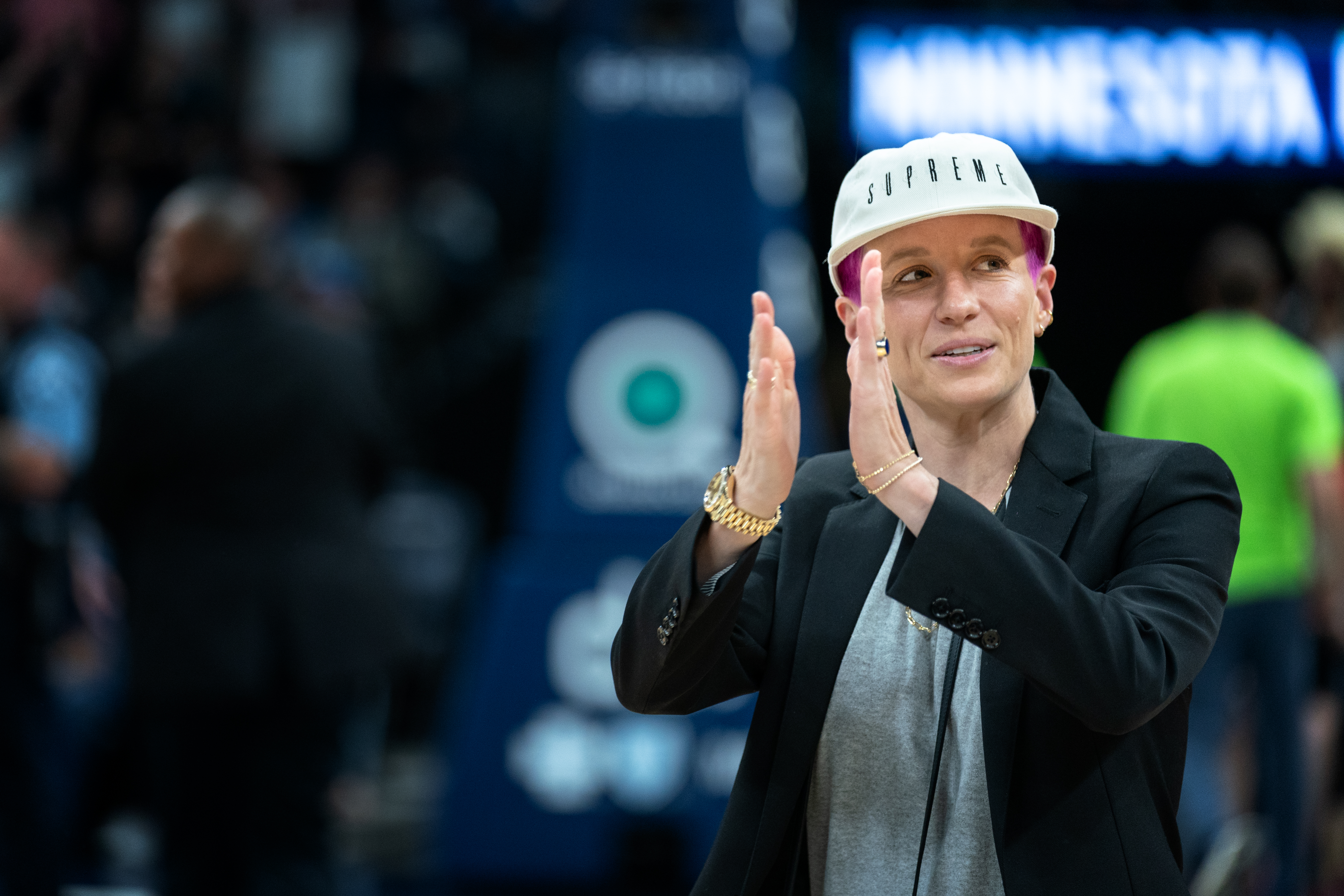 Minnesota Lynx vs Indiana Fever on 9/1/19 at Target Center in Minneapolis, MN; the Lynx won the game 81-73.